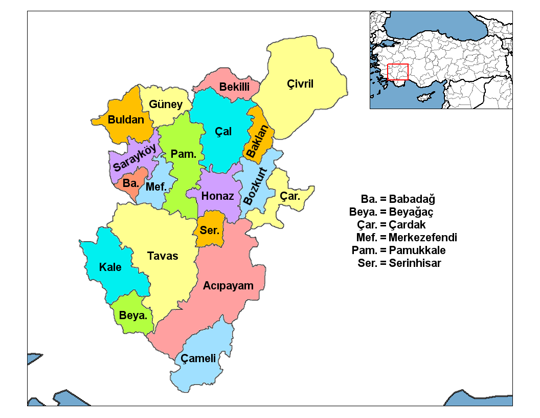 Map of the districts of Denizli province in Turkey. Created by Rarelibra 19:51, 1 December 2006 (UTC) for public domain use, using MapInfo Professional v8.5 and various mapping resources. Edited by One Homo Sapiens Corrected text where İ,Ş,ı,ğ,or ş occurs in name. Source: [statoids-com]. New district Çardak added, additional source: Denizli Valiliği [denizli-gov-tr]. Increased font size and enhanced color differences among adjacent districts.